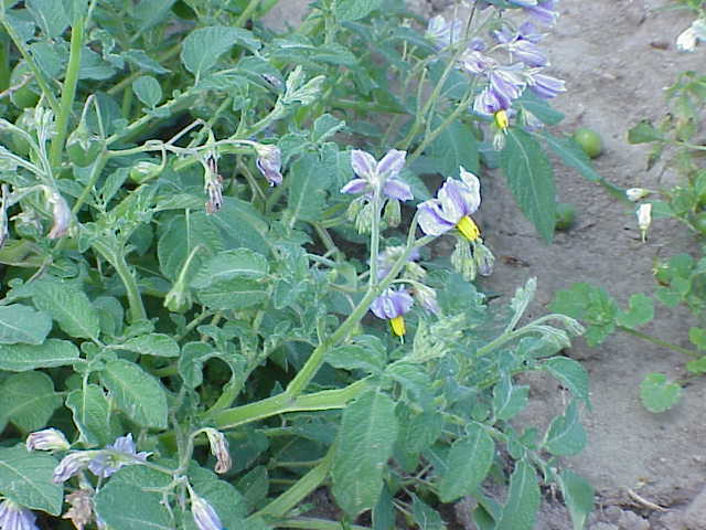 Species: Solanum ambosinum Family: Solanaceae Image No. 4